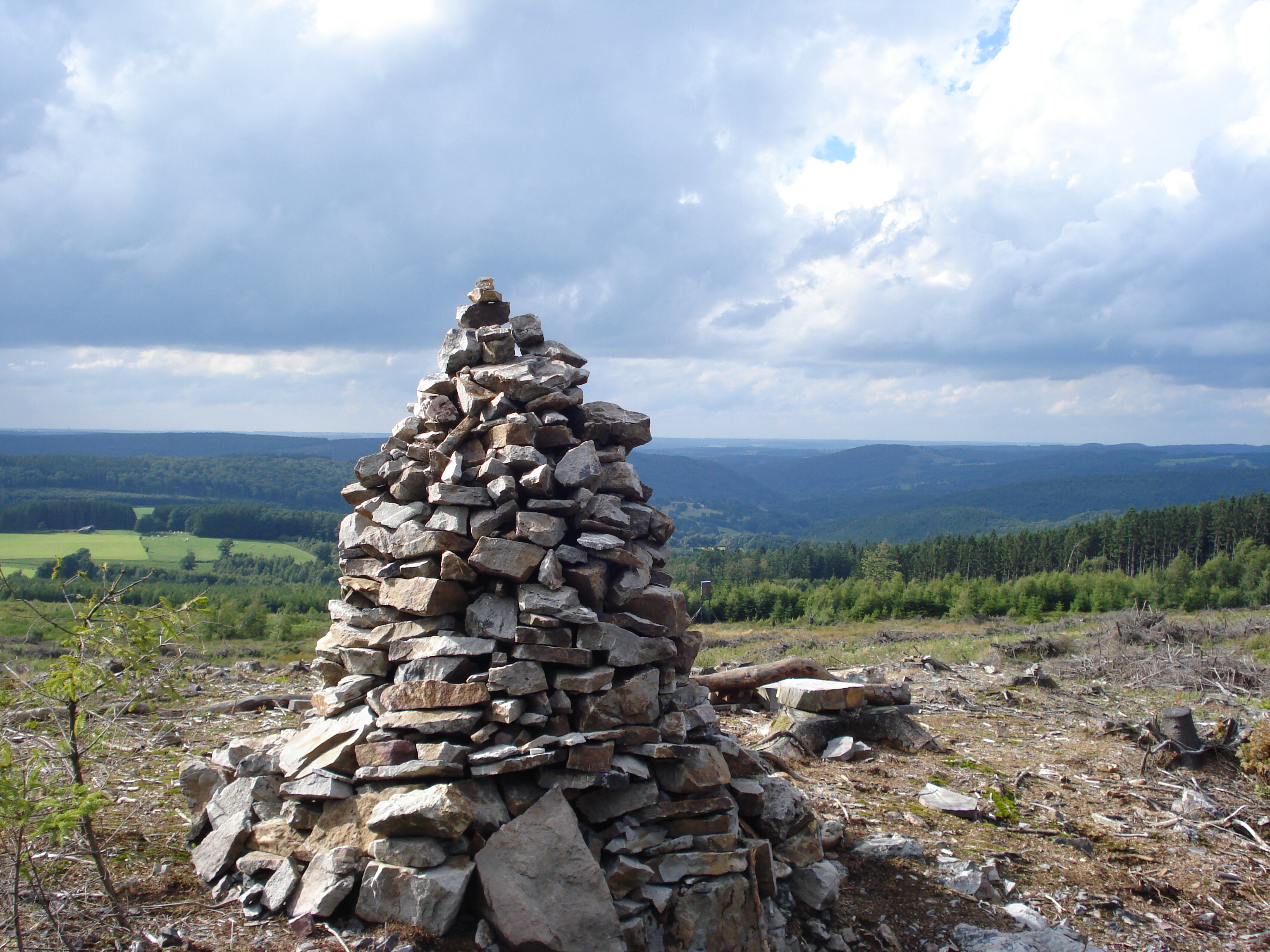 Cairn in Clerheid, Érezée, Belgium